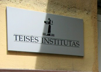 lenta